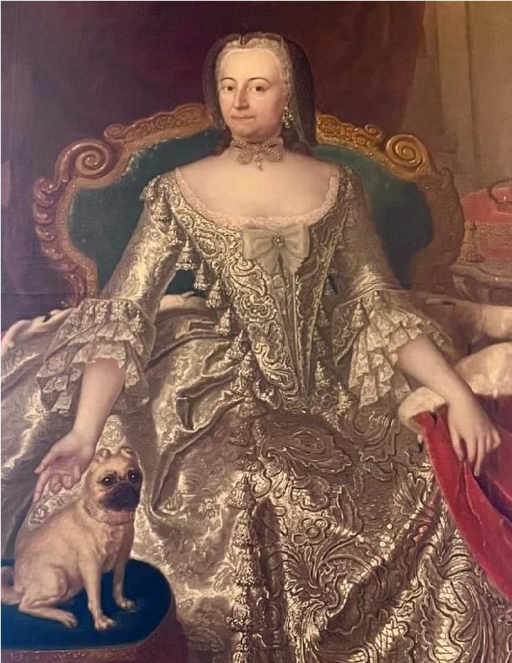 Portrait of Henrietta Maria of Brandenburg-Schwedt (1702-1782), Duchess of Württemberg